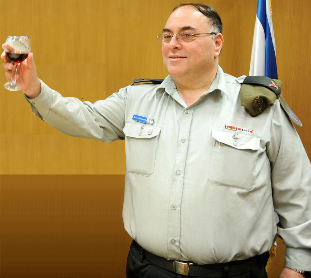 In a ceremony held Thursday (April 7th) at the IDF General Headquarters in Tel Aviv, Brig. Gen. Yoav "Poli" Mordechai was appointed the IDF Spokesperson, replacing Brig. Gen. Avi Benayahu, who is completing his four-year term. The ceremony was led by IDF Chief of the General Staff, Lt. Gen. Benny Gantz, and attended by the members of the IDF General Staff. In addition a ceremony marking the change of command was held, in which the outgoing IDF Spokesperson Brig. Gen. Avi Benayahu transferred the command to the incoming IDF Spokesperson Brig. Gen. Yoav "Poli" Mordechai. This part of the ceremony was presided over by the Head of the Operations Branch, Maj. Gen. Yaacov Ayish, previous IDF Spokespersons, senior commanders, military reporters, and the entire IDF Spokesperson's Unit. Pictured here (from l-r): Incoming Spokesman Brig. Gen. Yoav "Poli" Mordechai, Chief of Staff Lt. Gen. Benny Gantz, Outgoing IDF Spokesman Brig. Gen. Avi Benayahu For more information